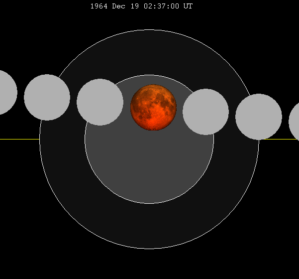 December 1964 lunar eclipse chart of moon's path through the earth's shadow. thumb